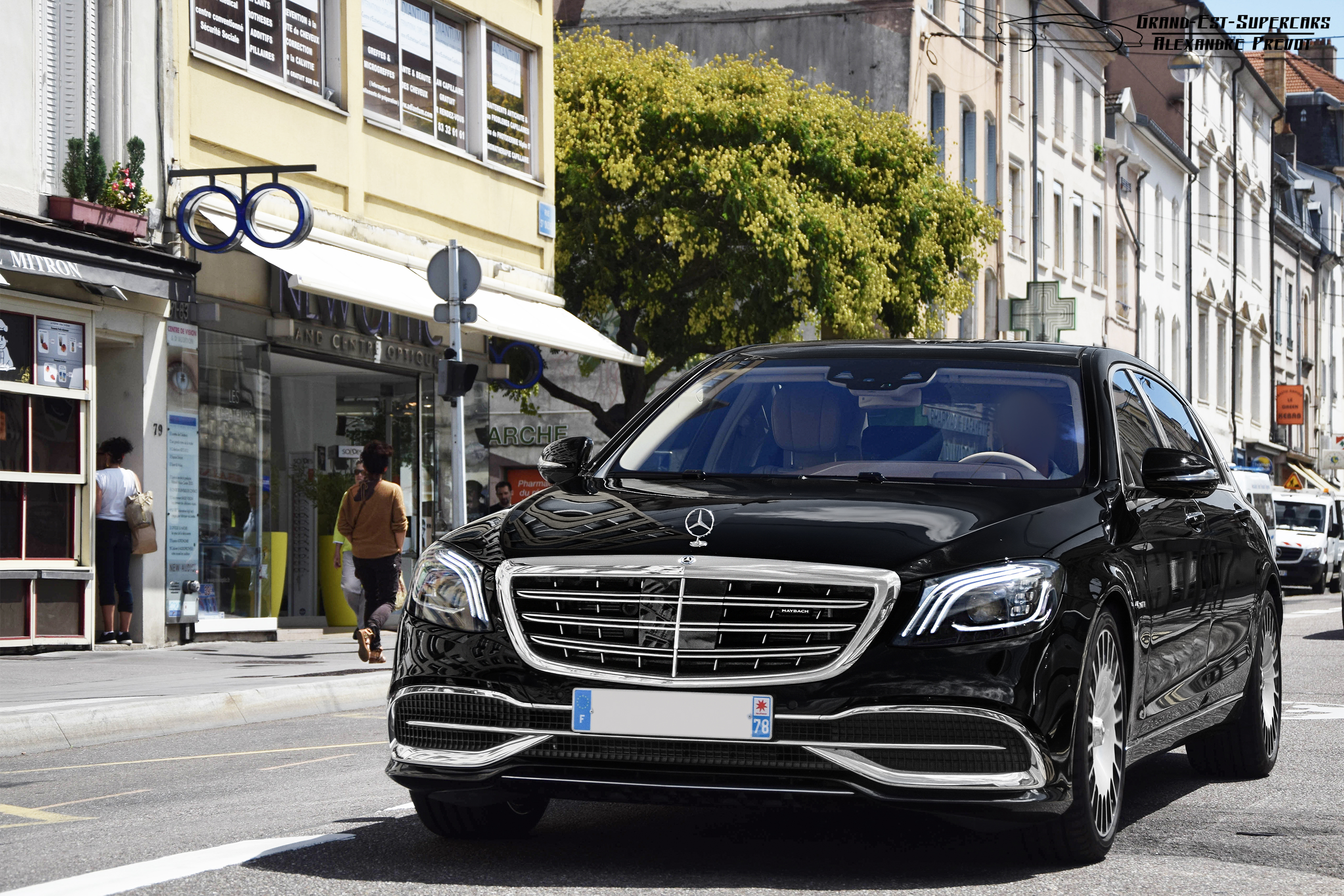 Mercedes-Maybach S 560, 2017